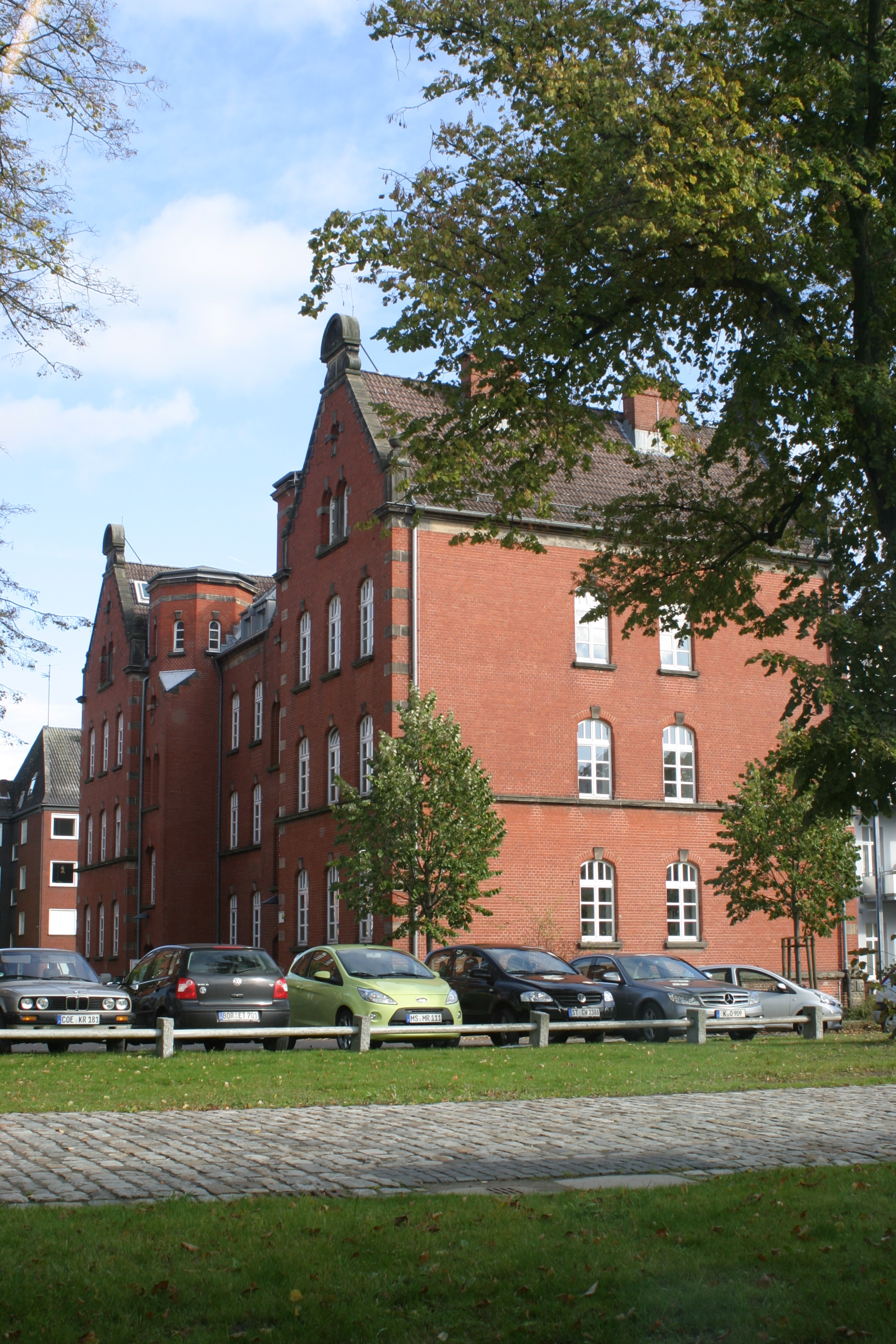 Institute for Information, Telecommunication and Media Law, Muenster, Germany. View from Leonardo Campus Library